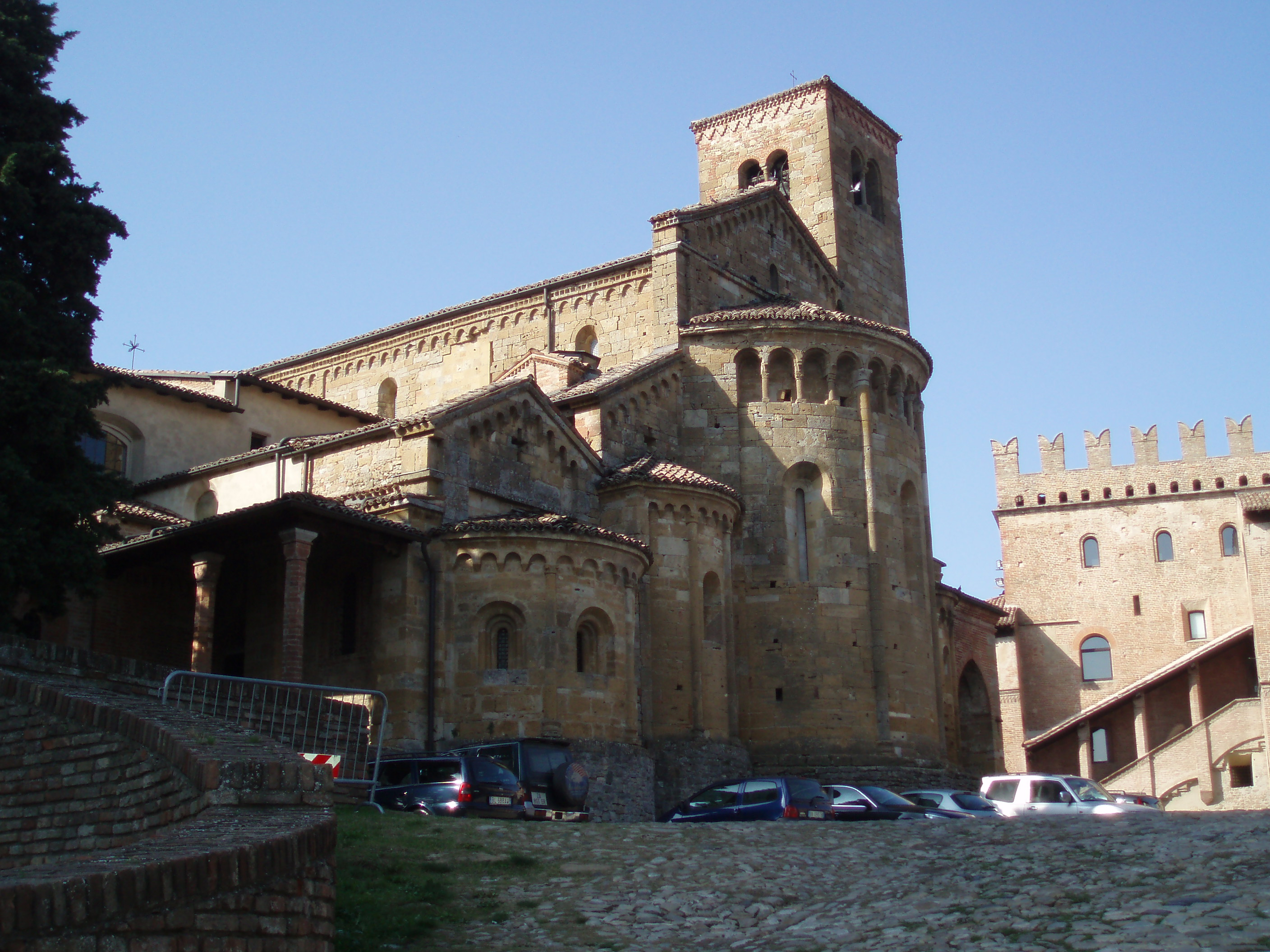 The village of Castell'Arquato.